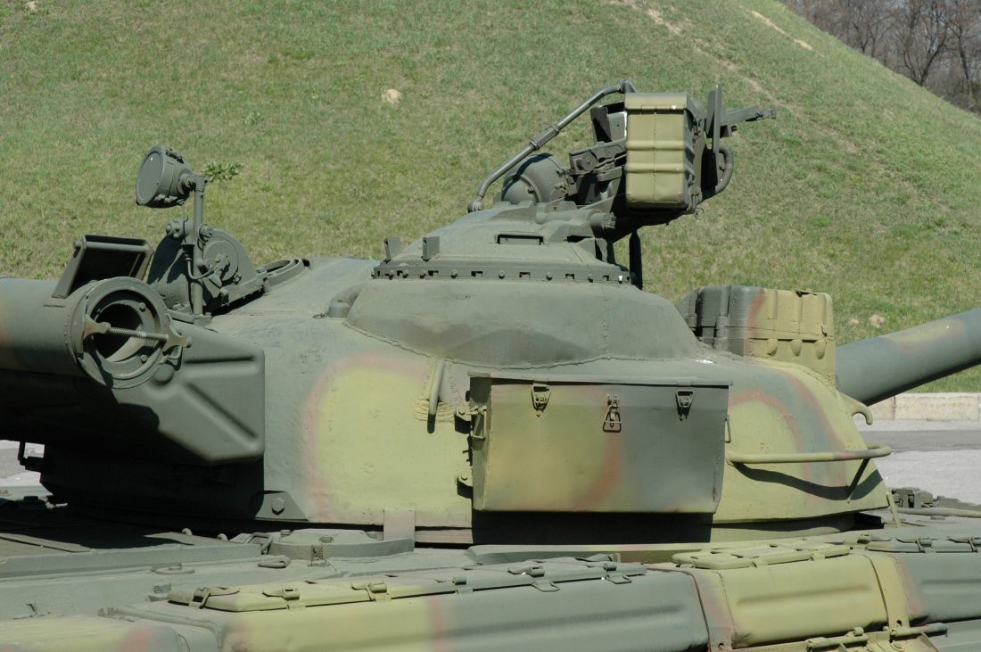 Turret of T-64 Soviet MBT (dislayed at the Museaum of Great Patriotic War, Kiyv, Ukraine)